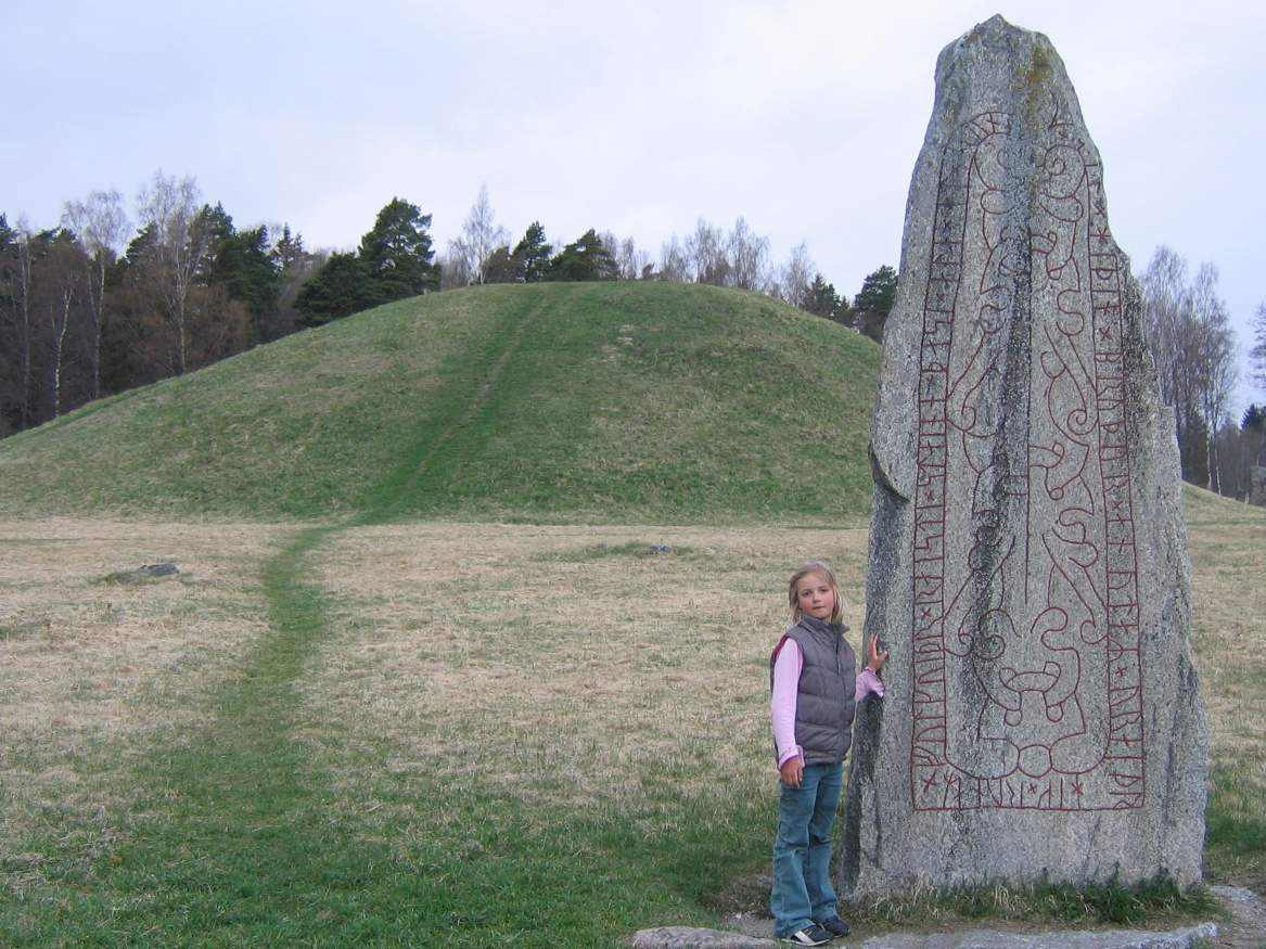 Anund's mound, a grave associated with Anund.